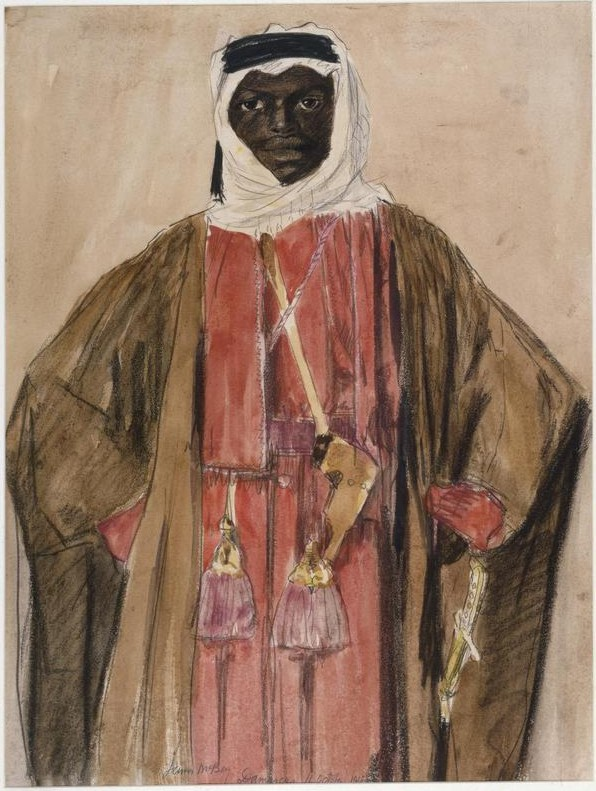 A three-quarters length portrait of a man in a arabic costume.